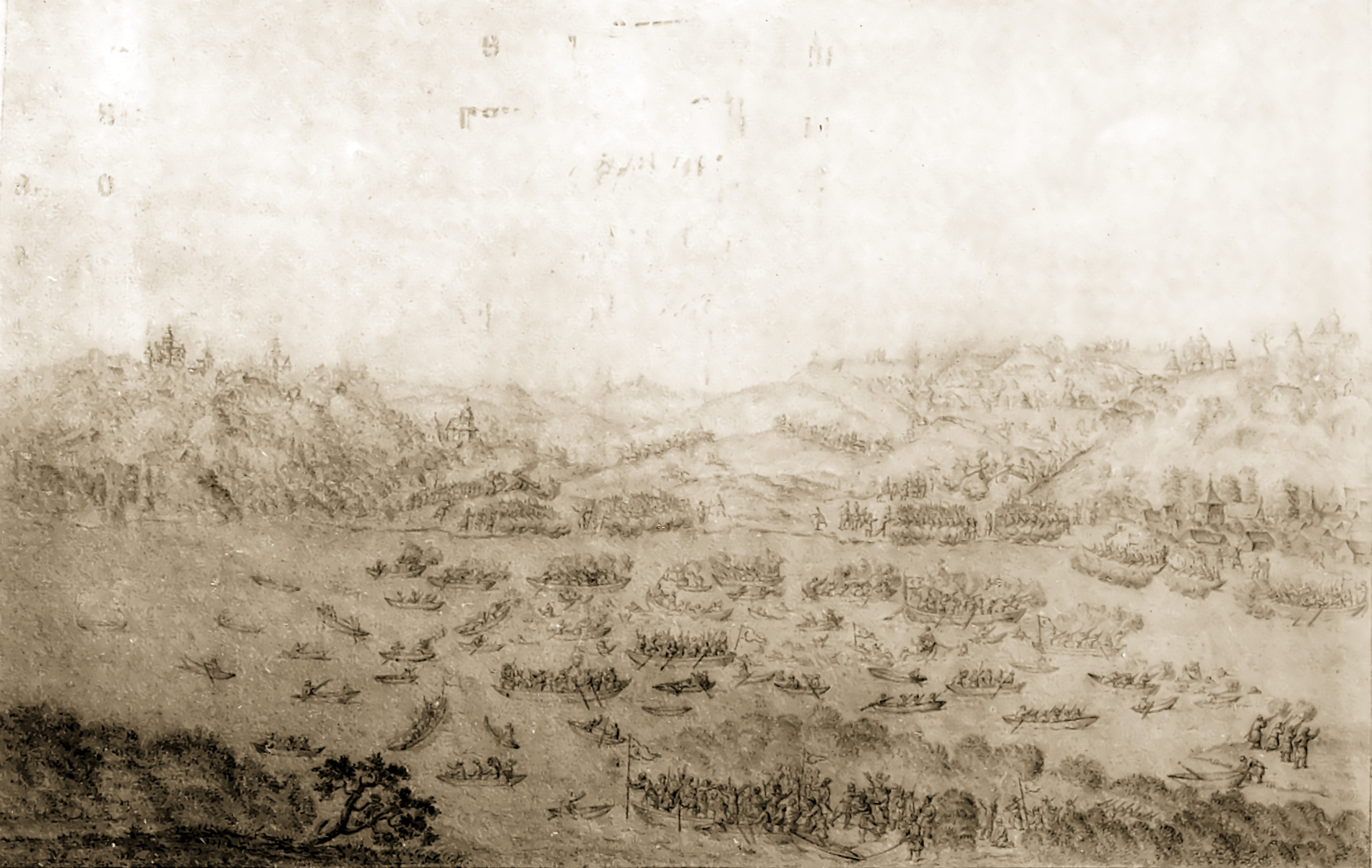 Cossacks attack the Lithuanian fleet on the Dnipro River at Kyiv, Ukraine in 1651.